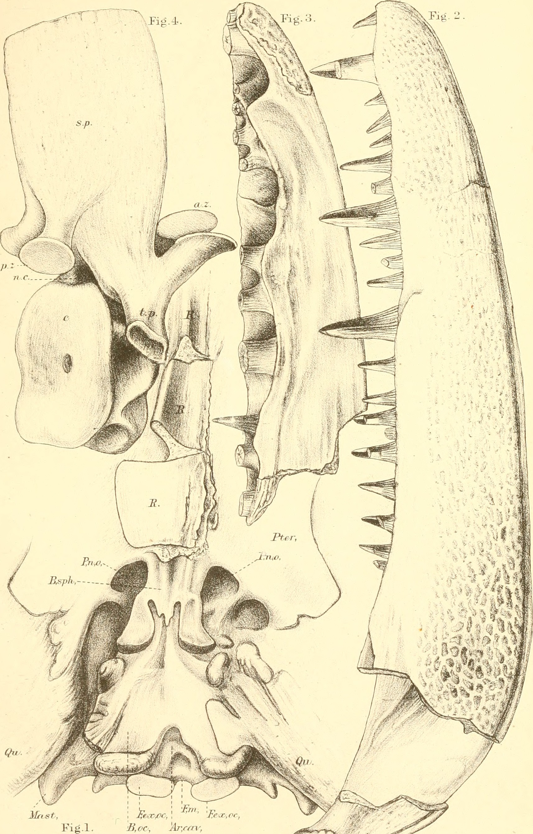 Title: The Annals and magazine of natural history; zoology, botany, and geology Year: 1840 (1840s) Authors: Subjects: Natural history; Zoology; Botany; Geology Publisher: London, Taylor and Francis, Ltd Text Appearing Before Image: Ann.kMag.Nat.MxI. S. I. .YL. Text Appearing After Image: Wm Dinning del R MinUrn lith. LOXOMMA ALLMANNI.HUX. Mintern Bros.imp